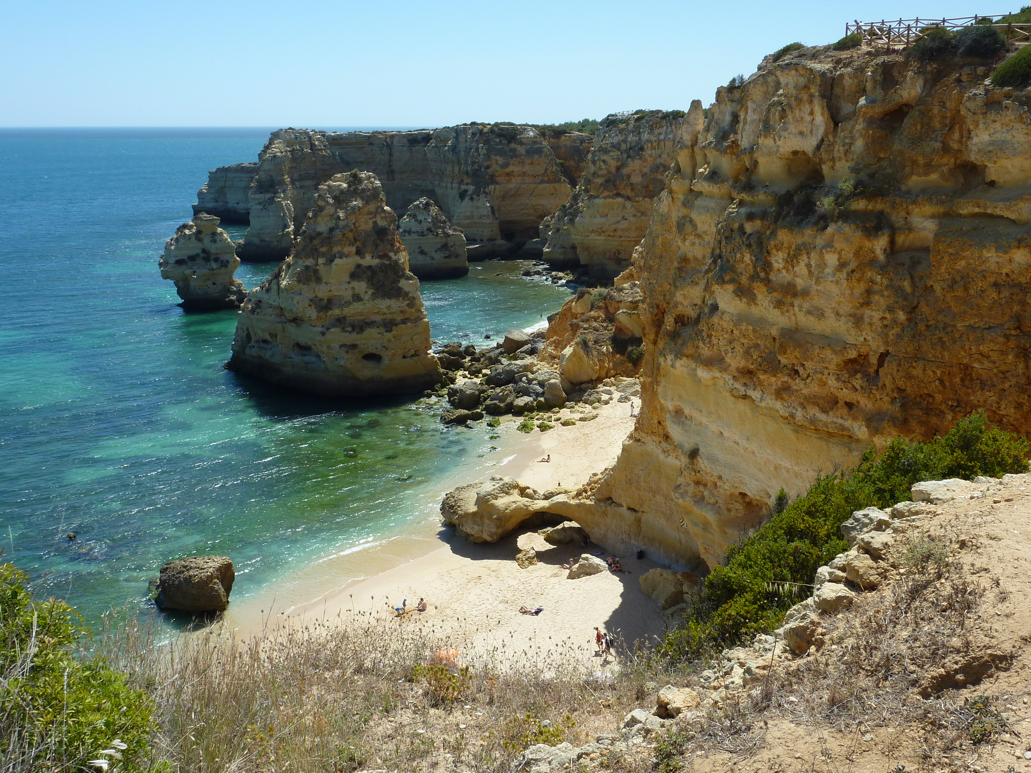 Algarve - Marinha Beach